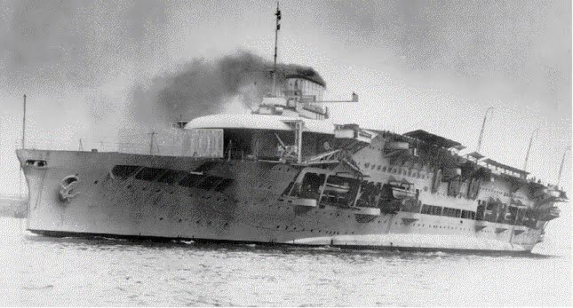 HMS Glorious soon after its remodeling as an aircraft carrier